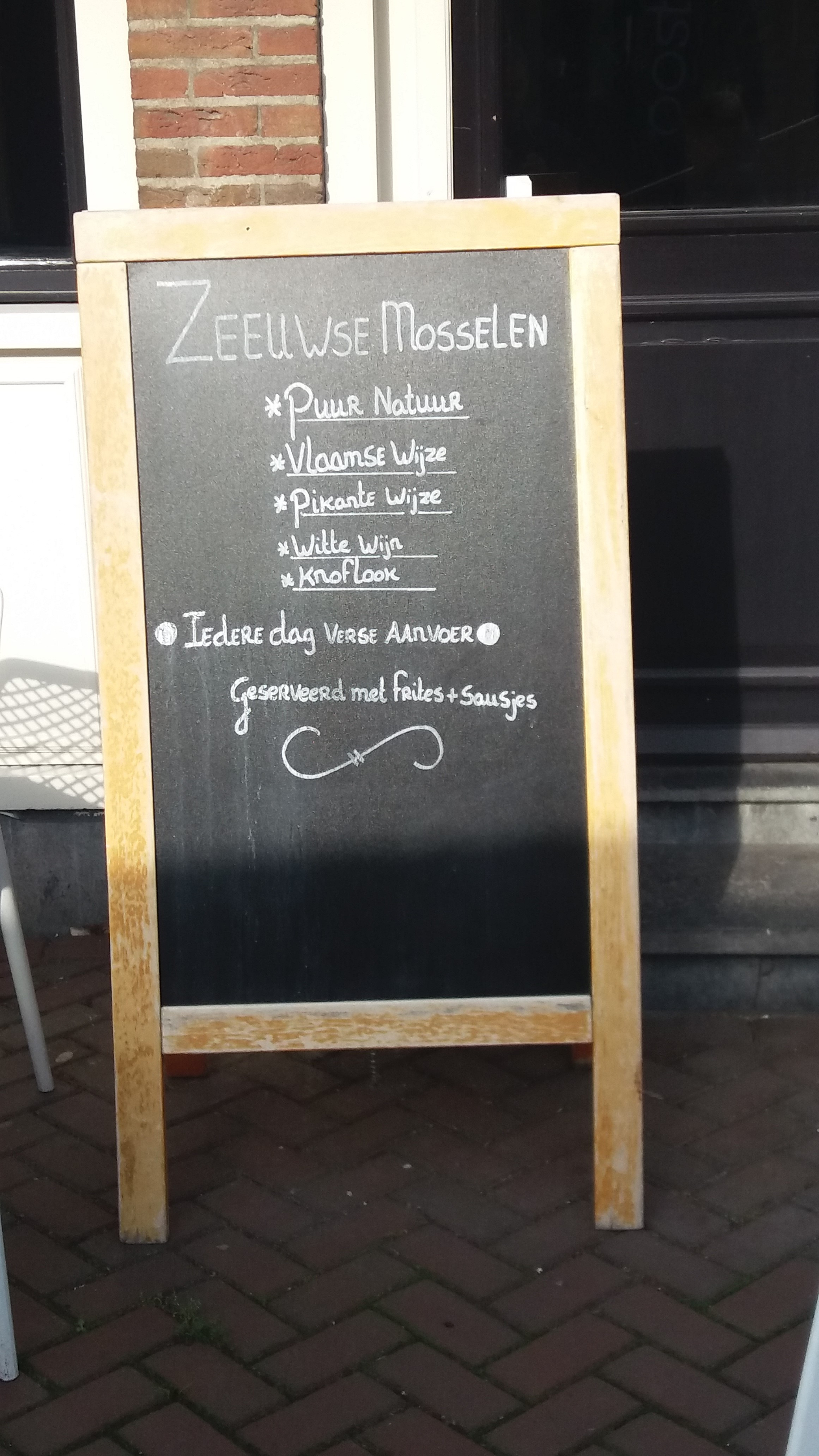 An outdoor board displaying advertisement for Dutch mussels in front of a restaurant in Roosendaal, the Netherlands.